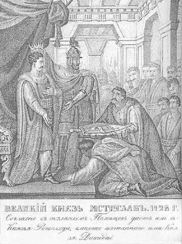 Grand Duke Mstislav